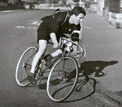 Photograph of Archie Craig, The Lothian Flyer